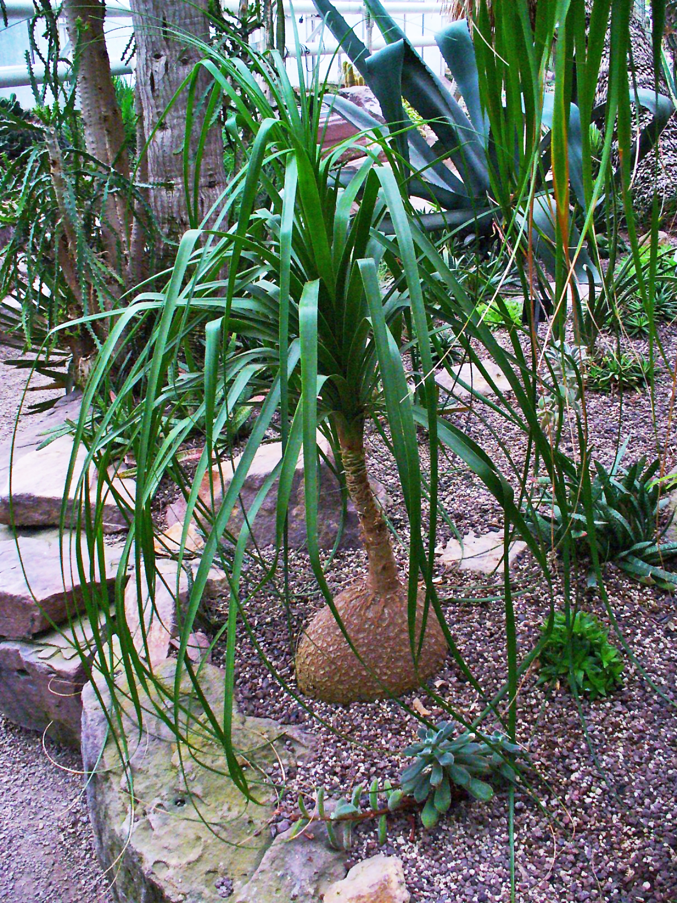 Beaucarnea recurvata, Ruscaceae, Ponytail Palm, habitus; Botanical Garden Karlsruhe, Germany.